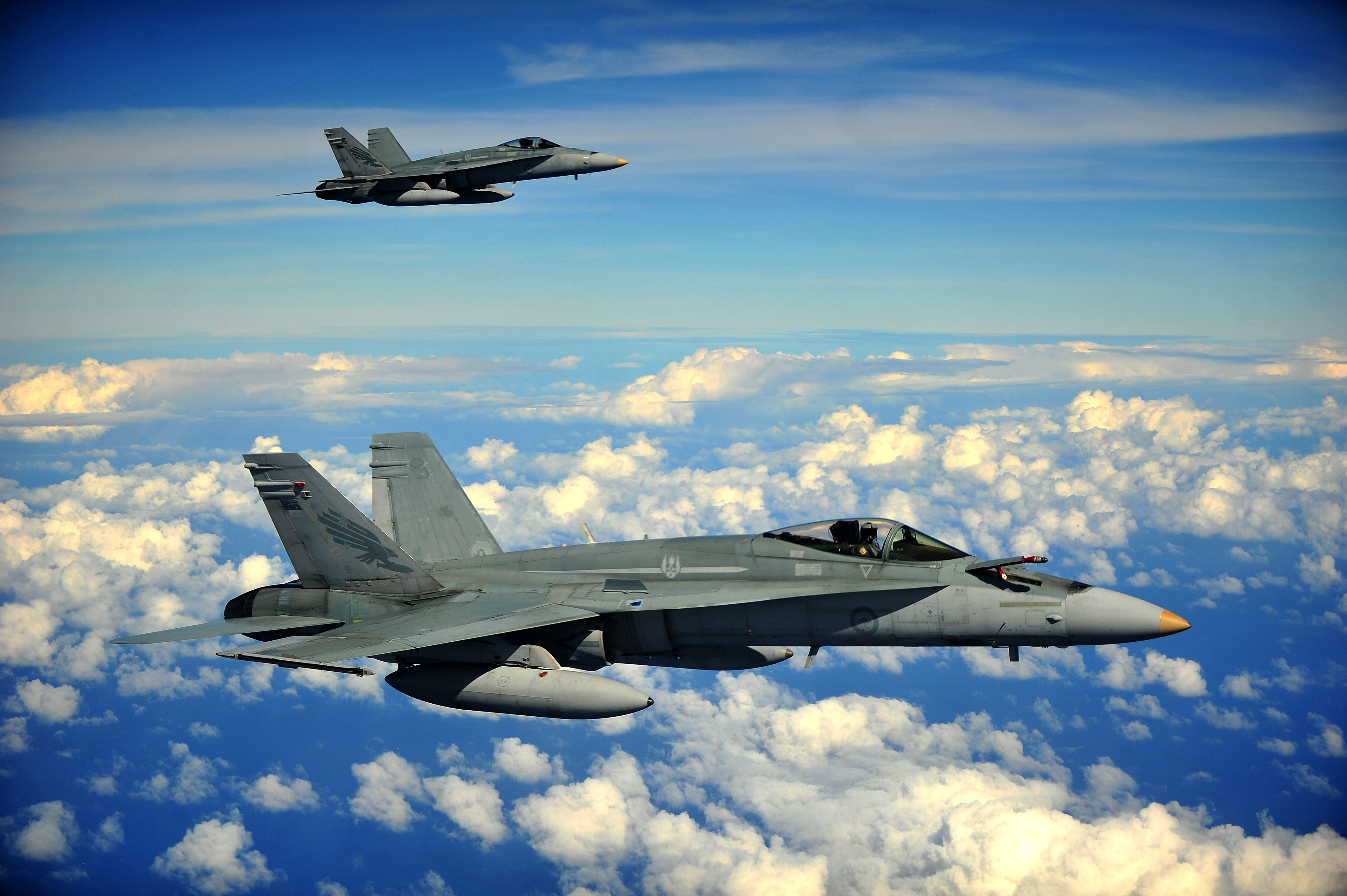 Two Royal Australian Air Force F/A-18 Hornets form up in preparation to conduct an air refuel while participating in Cope North 13 near Anderson Air Force Base, Guam, Feb. 13, 2013. The F/A-18 Hornet is a multi-role fighter designed for both air-to-air and air-to-ground missions. Cope North is an annual air combat tactics, humanitarian assistance and disaster relief exercise designed to increase the readiness and interoperability of the U.S. Air Force, Japan Air Self-Defense Force and Royal Australian Air Force.